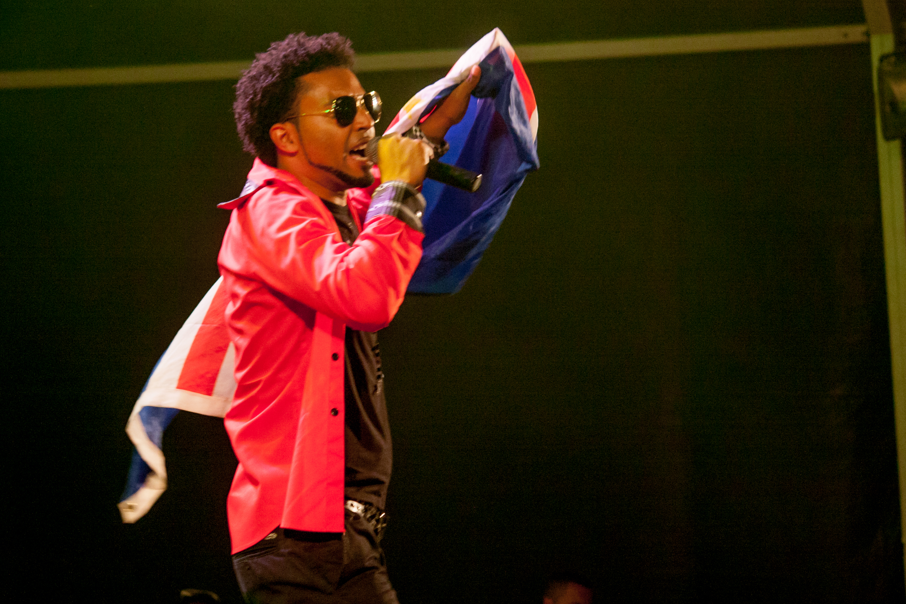 Gil Semedo with flag of Cape Verde